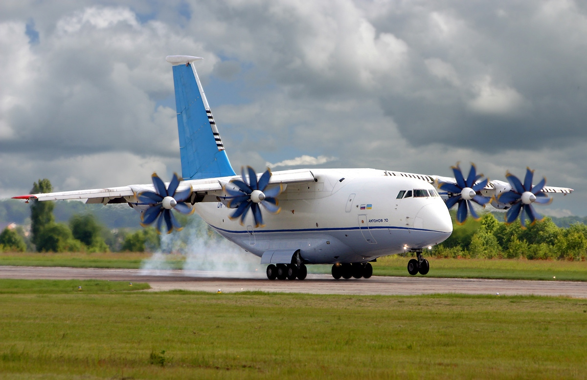 Aviasvit-XXI Airshow